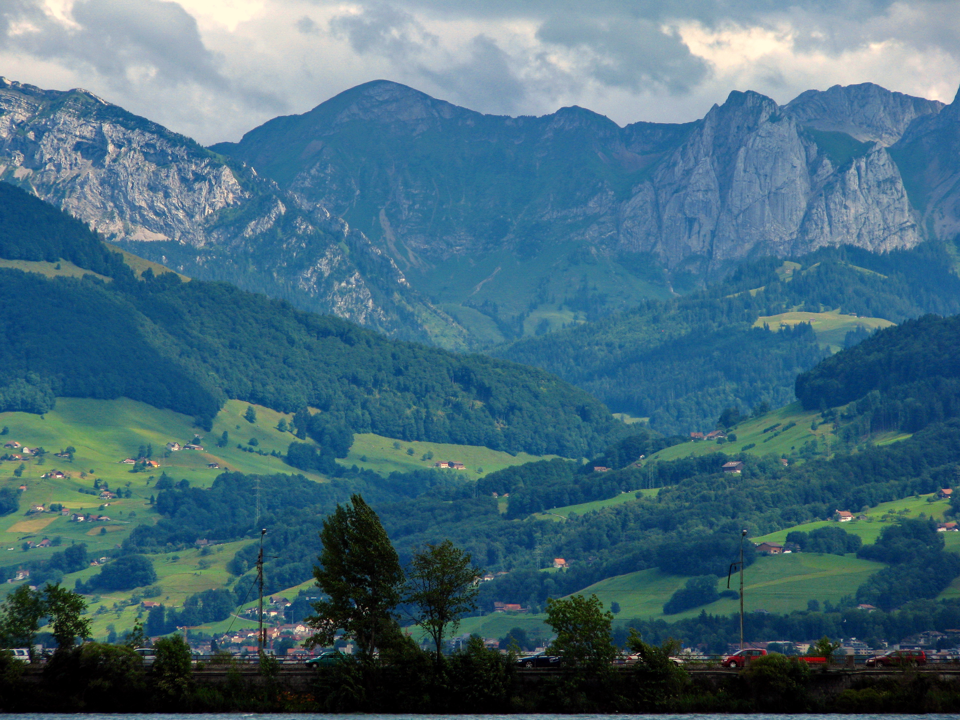 Seedamm as seen from Zürichsee, Wägital in the background.